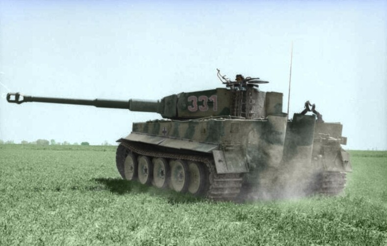 This is a retouched picture, which means that it has been digitally altered from its original version. Modifications: recolored by User:Eclipse.sx. Recolored Version of this image. The reconstruction of the color scheme is based on the one used on this Tiger 2 tank. Original description: Title: Nordfrankreich, Panzer VI (Tiger I) Extra information: Frankreich-Nord.- Panzer VI "Tiger I" des 1. SS-Pz. Korps "Leibstandarte Adolf Hitler" (Turmnummer 331), Frühjahr 1944; PK 698 Factual corrections and alternative descriptions are encouraged separately from the original description. Additionally errors can be reported at this page to inform the Bundesarchiv. Original historic description